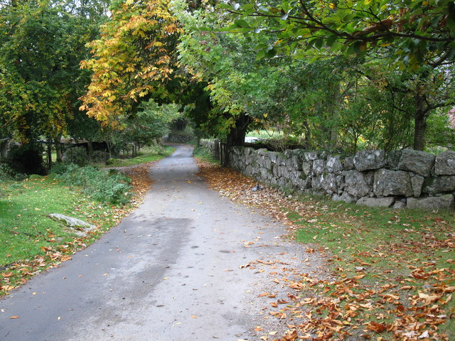 Lane at Bonehill The lane at Bonehill in autumn.